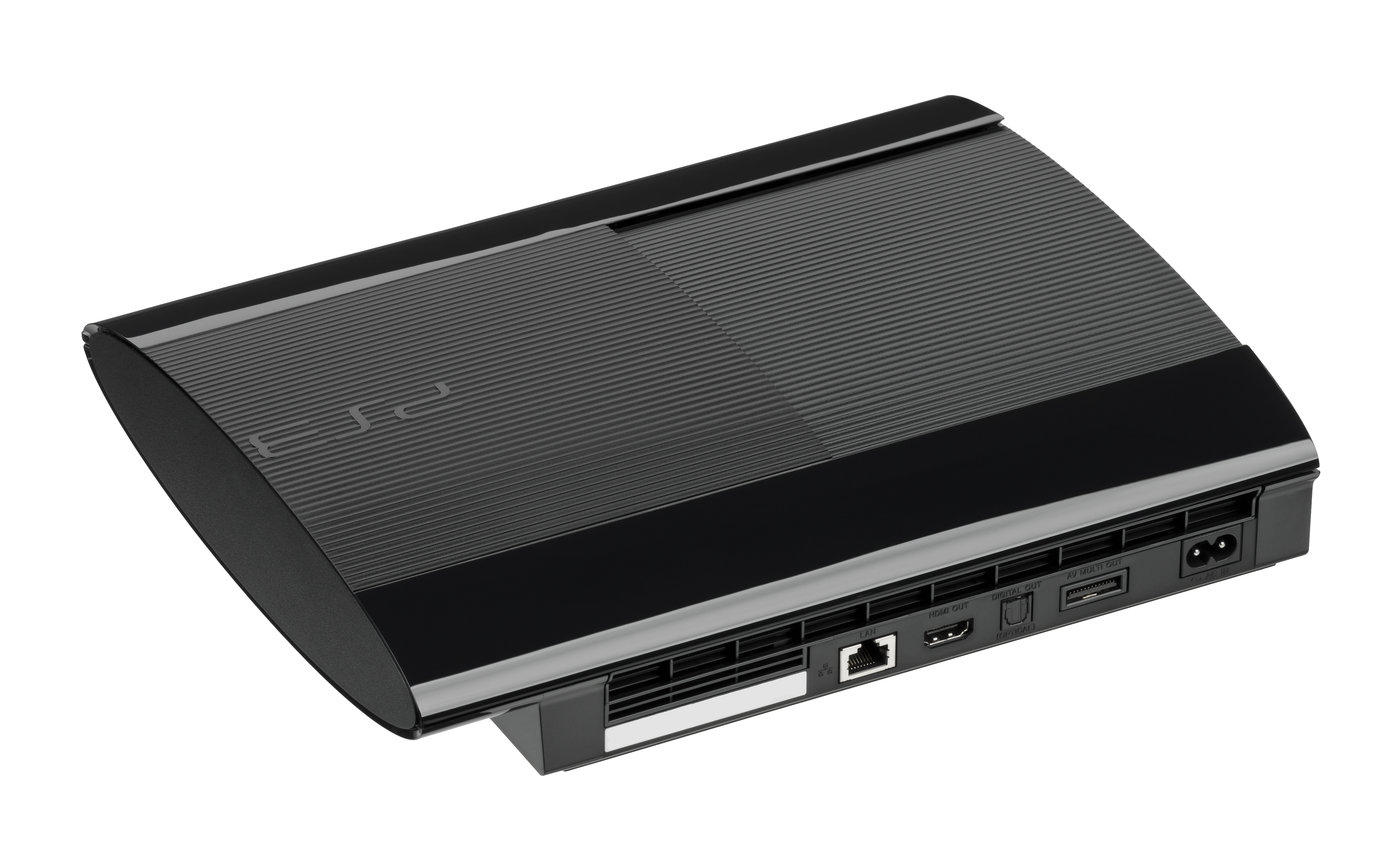 The PlayStation 3 (PS3) gaming console made by Sony. Nicknamed the "Super Slim", it is the third and final hardware design of the PlayStation 3 console. It is smaller and lighter than the previous systems, but the most notable change is the move from a slot-loading Blu-Ray drive to a sliding-door version. Released in late 2012, it was available with either 250GB or 500GB hard drive, or with 12GB of flash memory.